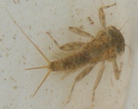 Mayfly larva